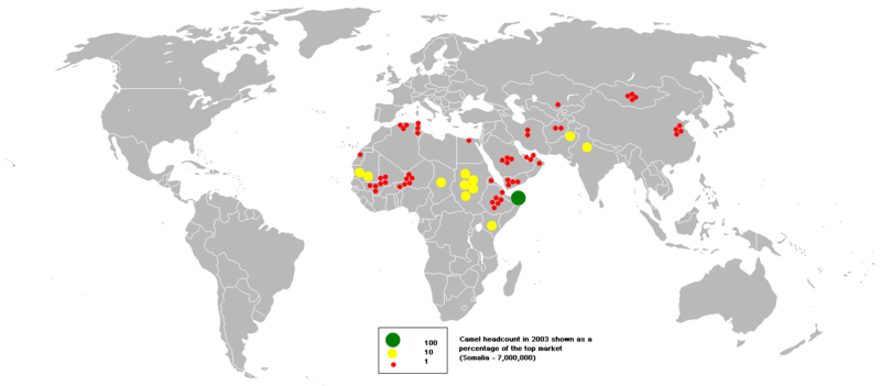 This bubble map shows the global distribution of camels in 2003 as a percentage of the top market (Somalia - 7,000,000). This map is consistent with incomplete set of data too as long as the top market is known. It resolves the accessibility issues faced by colour-coded maps that may not be properly rendered in old computer screens. Data was extracted on 11th June 2007 from Based on Image:BlankMap-World.png